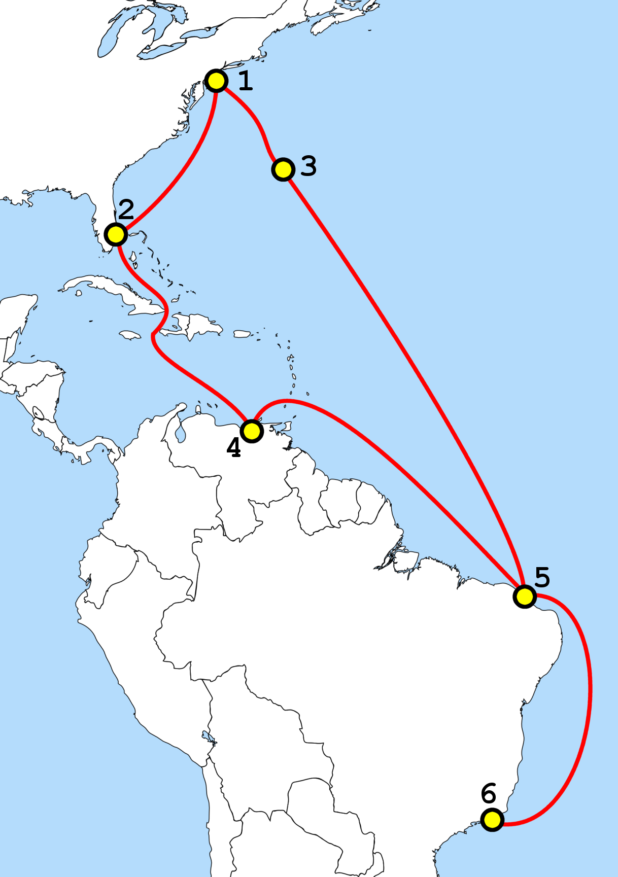 Route of the Atlantica-1 submarine communications cable. For more information regarding numbered landing points, see Main article.